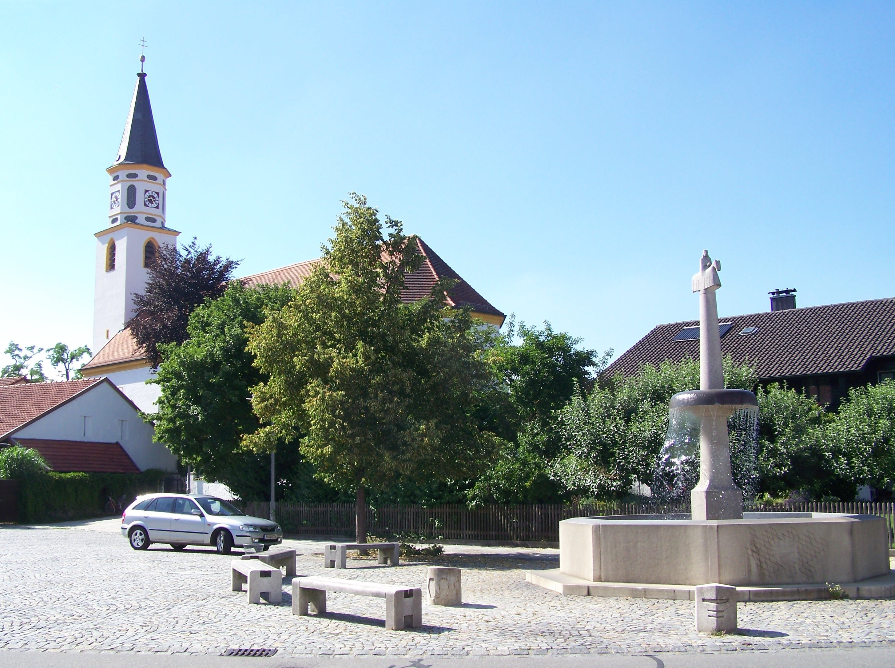 The Ampfinger Kirchplatz and the church St. Margareta